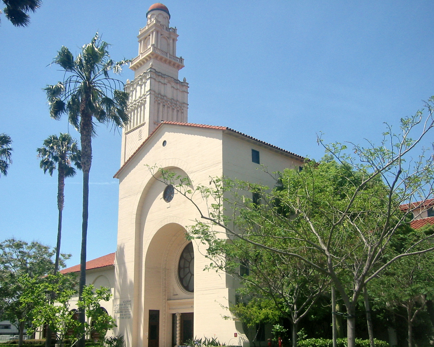 Academy of Motion Picture Arts and Sciences, Fairbanks Center for Motion Picture Study building on La Cienega Boulevard in Beverly Hills, California